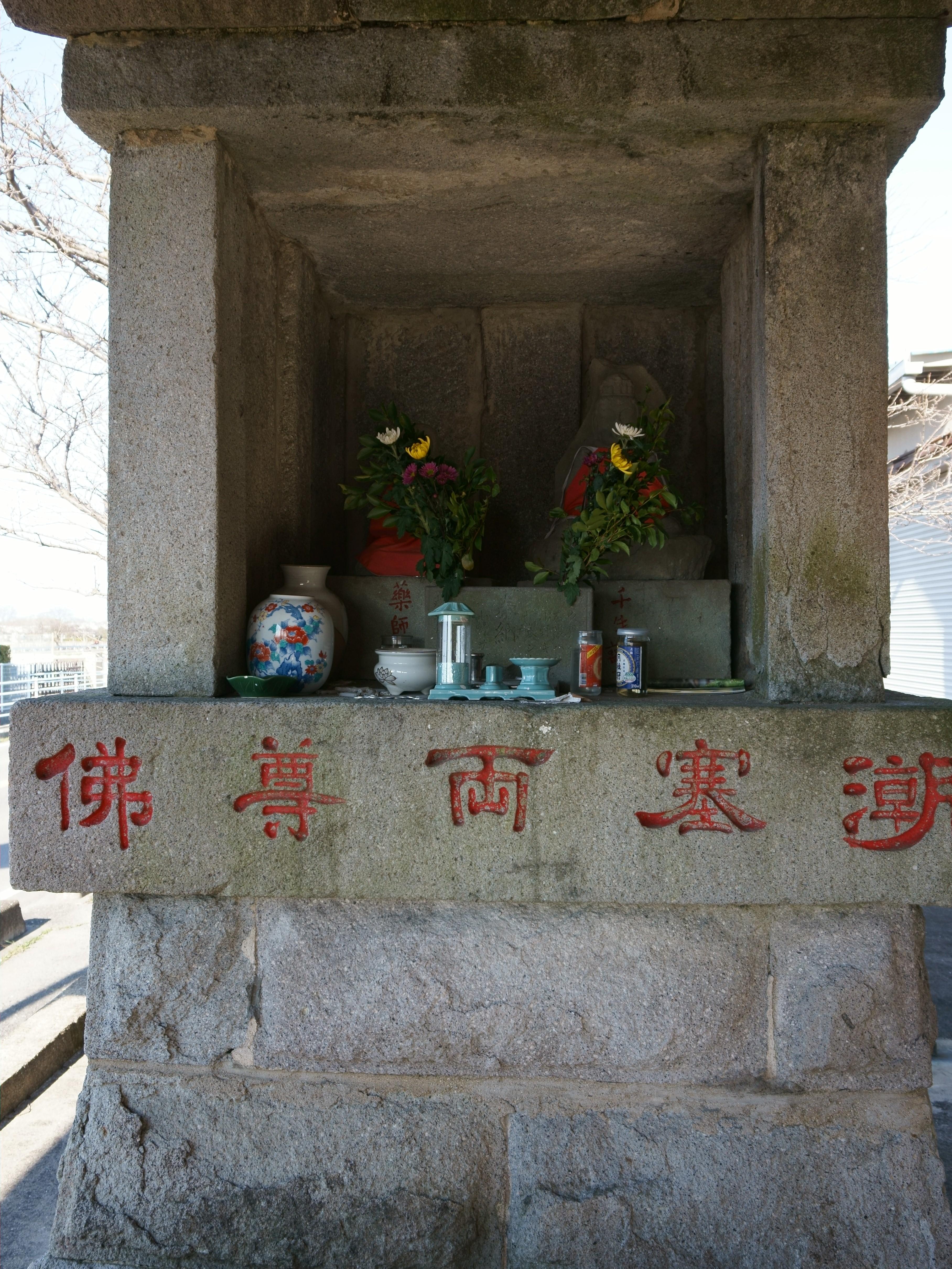 Shiodome Kannon in Fukudomi, Shiroishi town, Saga prefecture.